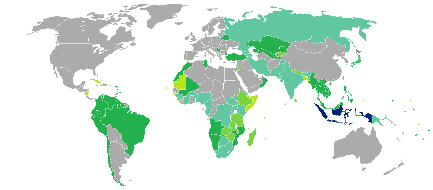 Visa requirements for Indonesian citizens. Indonesia Visa free access Visa on arrival eVisa Visa available both on arrival or online Visa required